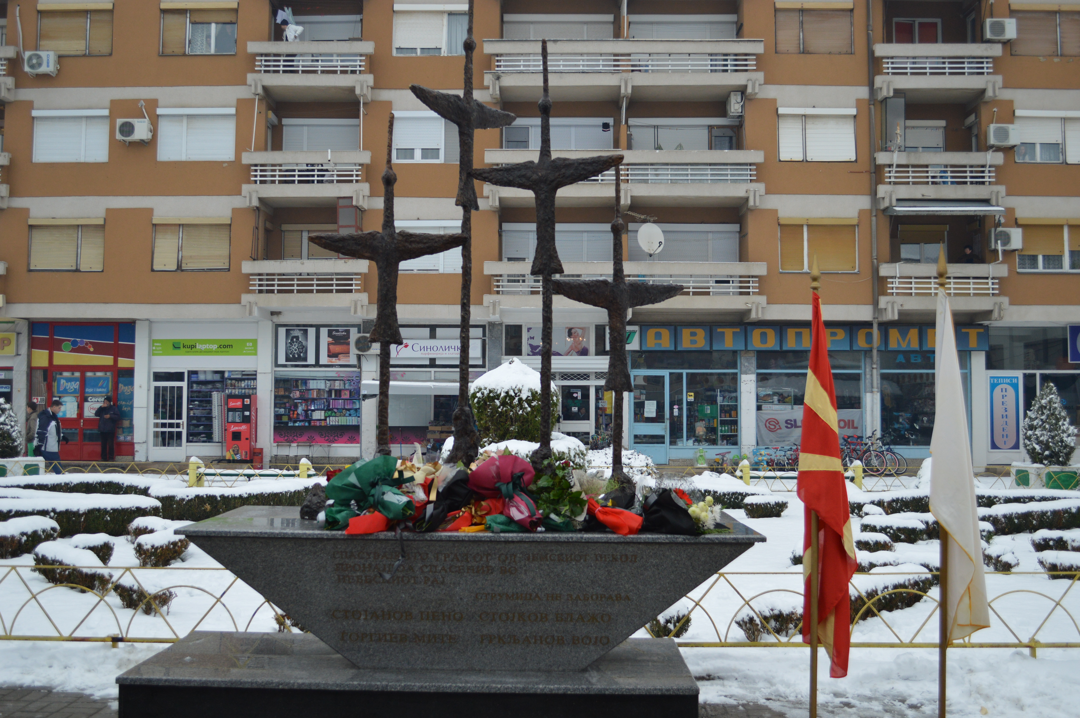 The monument of the killed in the Strumica wildfire of 2012 solemnly decorated.